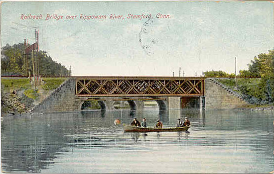 Postcard: Railroad bridge on the New Haven Line over the Mill River (also known as the Rippowam River) in Stamford, Connecticut just west of the Stamford train station."1908 postally used postcard pub by Hugh C. Leighton, No. 20320, showing the Railroad Bridge over Rippowam River in Stamford, CT." Caption from front: "Railroad Bridge over Rippowam River, Stamford, Conn."